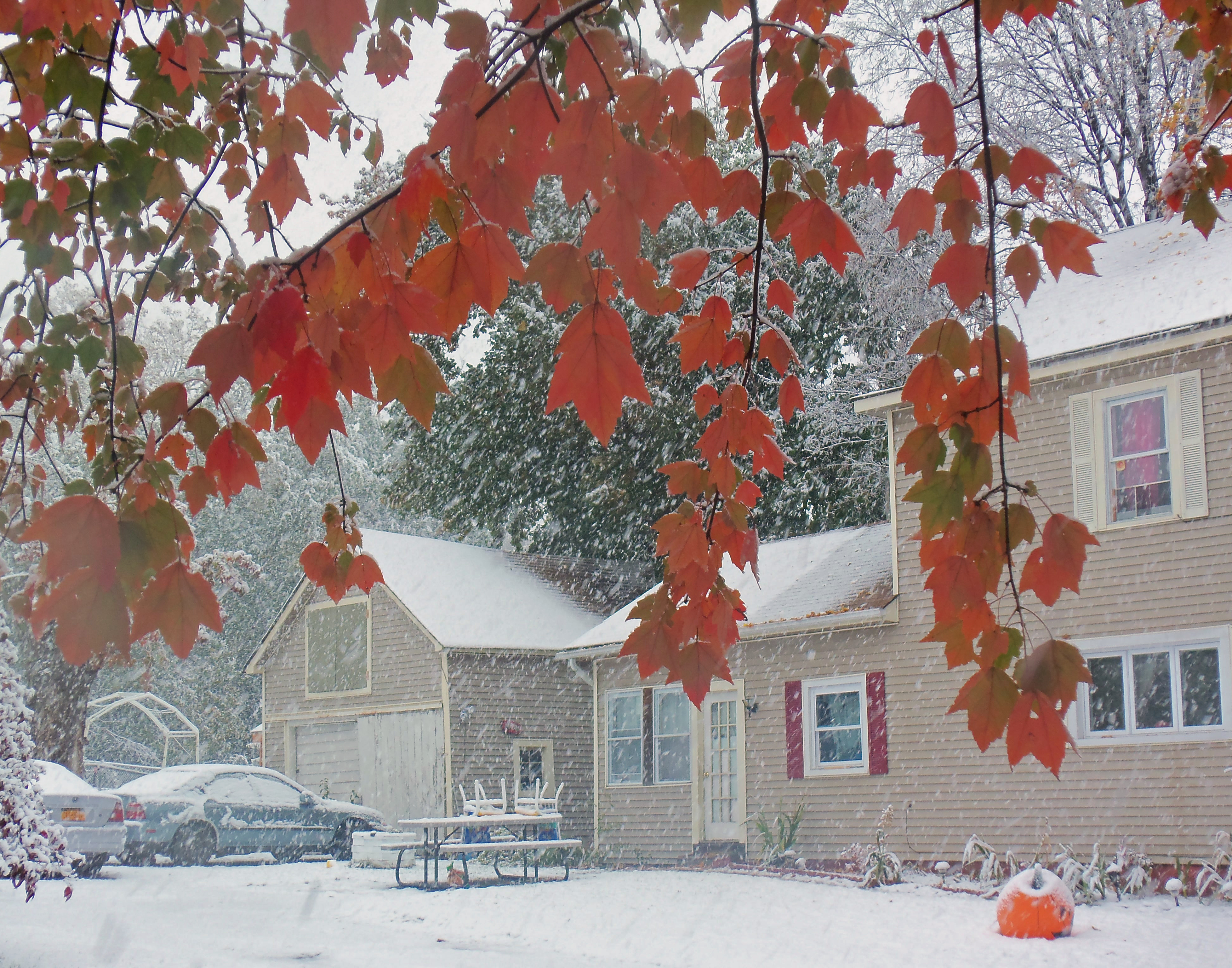 Uncommon combination of leaves in brilliant autumn color and falling snow during 2011 Halloween nor'easter at Walden, NY, USA. Also note inflatable jack o'lantern in lower right, reflecting approaching holiday